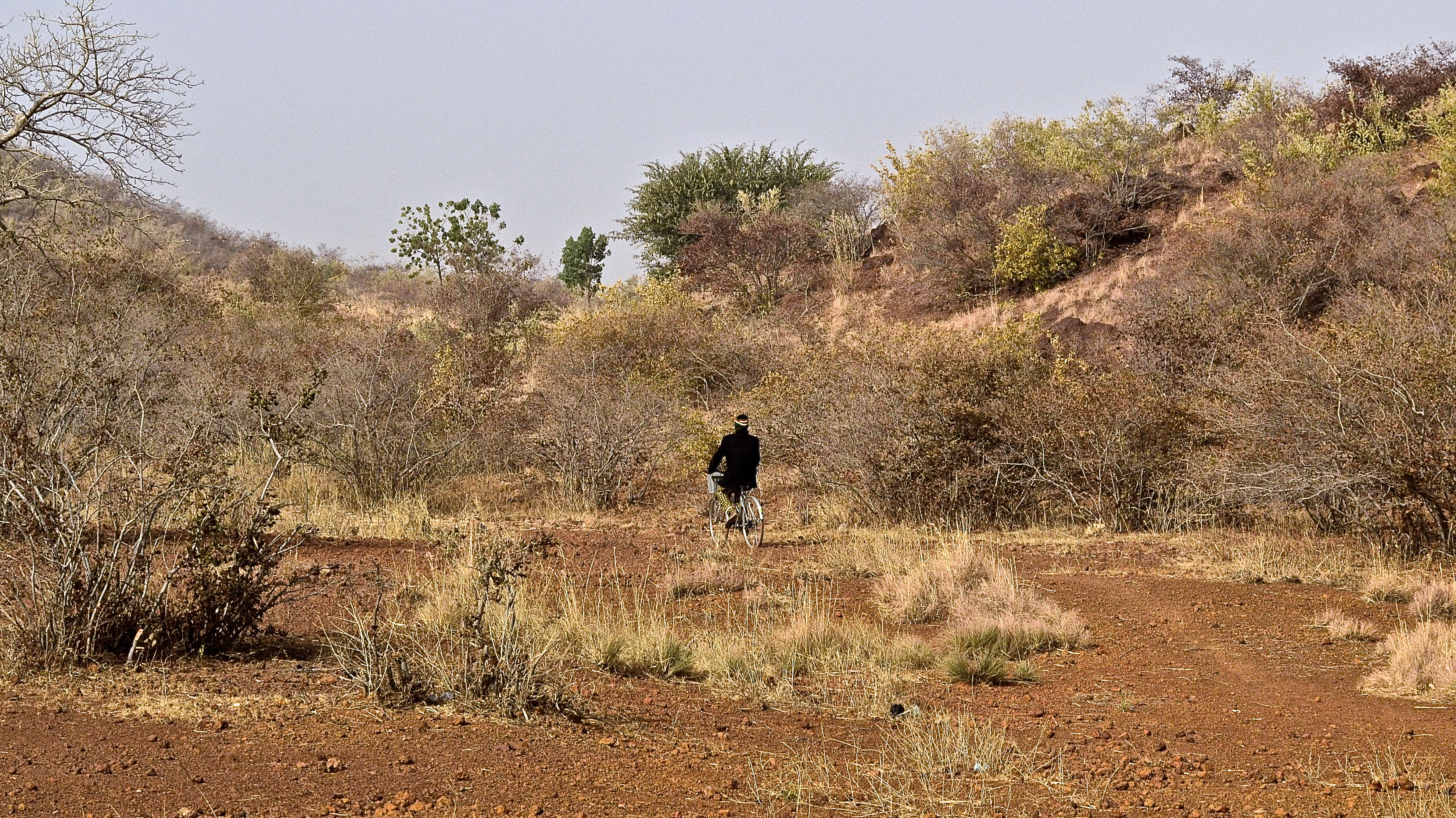 Who is this man ? Where is he riding to ? How does he make his way into this wild and hostile part of the Sahel ? How to imaging what his life is made of, the strengh that holds him and allows him to travel into the forgotten part of our world ? This is an image with the theme "Africa on the Move or Transport" from: Burkina Faso